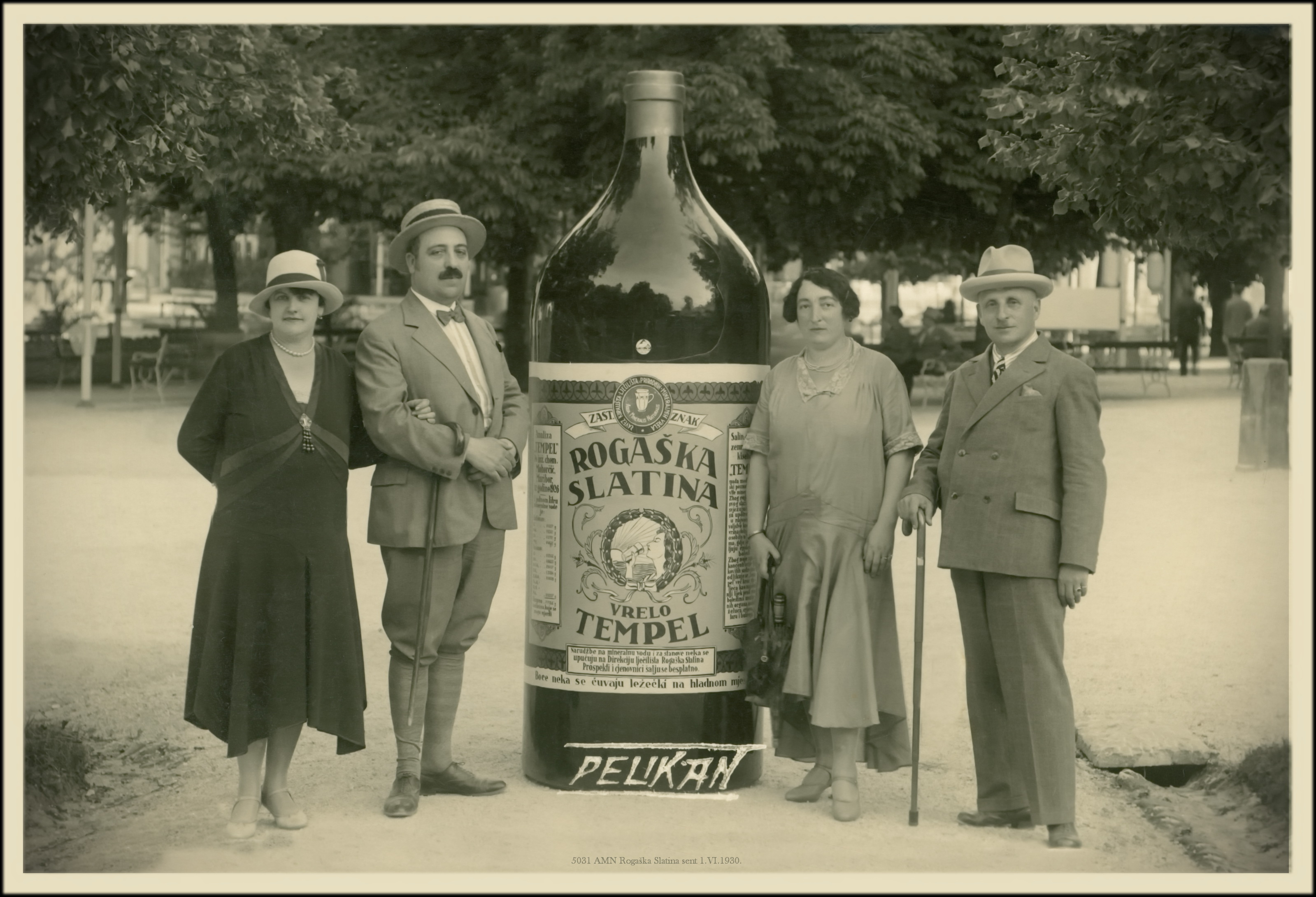 Postcard of Rogaška Slatina.